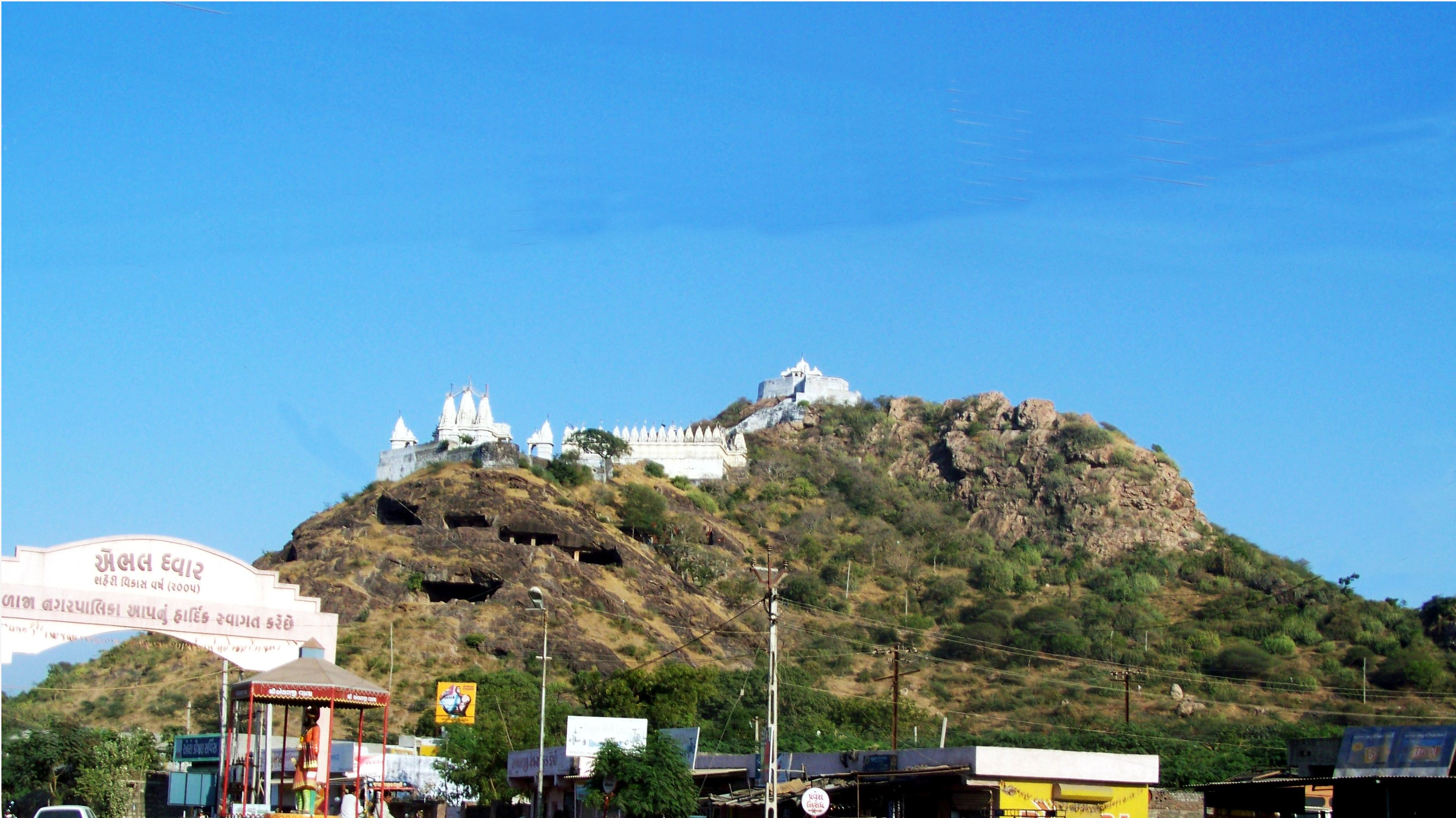 Taaldhwaj giri - Talaja, Gujarat, India